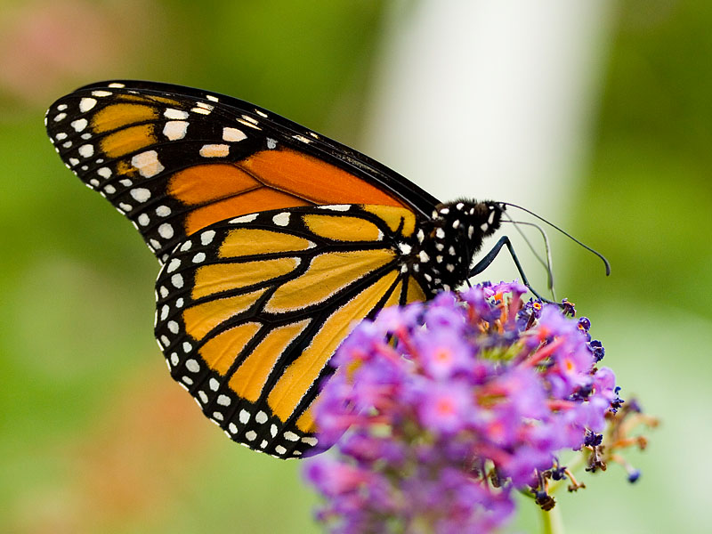 Monarch Butterfly picture taken at the Brooklyn Botanic Garden.